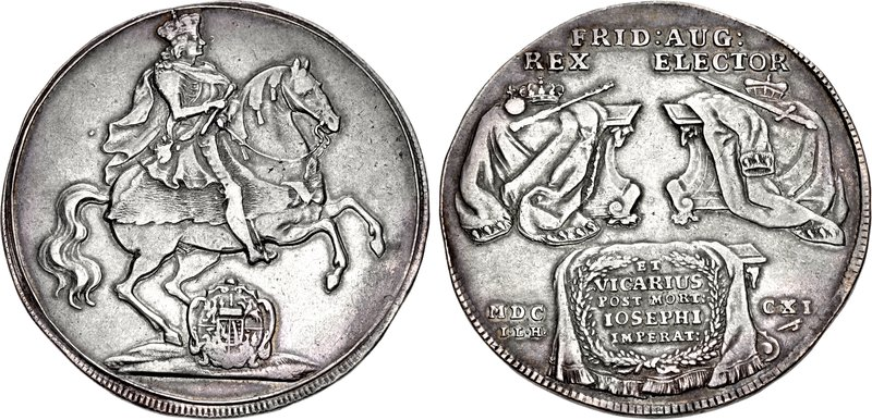 GERMANY, Sachsen-Albertinische Linie. Friedrich August I. Elector, 1694-1733. AR Taler (45mm, 29.02 g, 4h). On the Vicariate. Dresden mint. Dated 1711. King mounted on horseback right; coat of arms below / Two sets of crowns and scepters on draped tables; FRID : AUG :/REX ELECTOR in two lines above, ET/VICARIUS/POST MORT :/IOSEPHI/IMPERAT : in four lines within wreath below; MDC-CXI flanking wreath; I • L • H • to lower left. Kahnt 283; Schnee 1011; Davenport 2655. Good VF, toned.